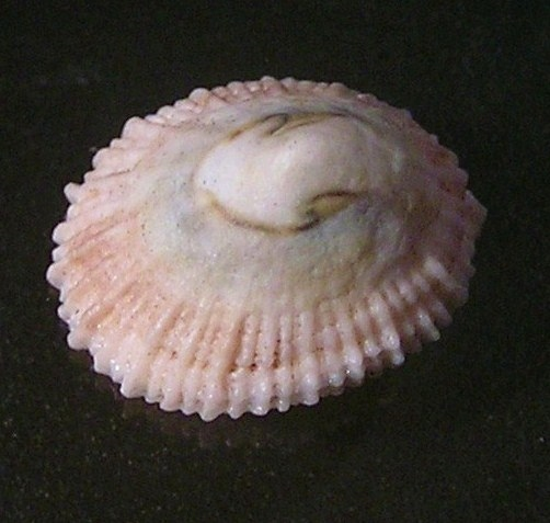 Patelloida mufria Ch. Hedley, 1915, a true limpet from the family Lottiidae; Australia